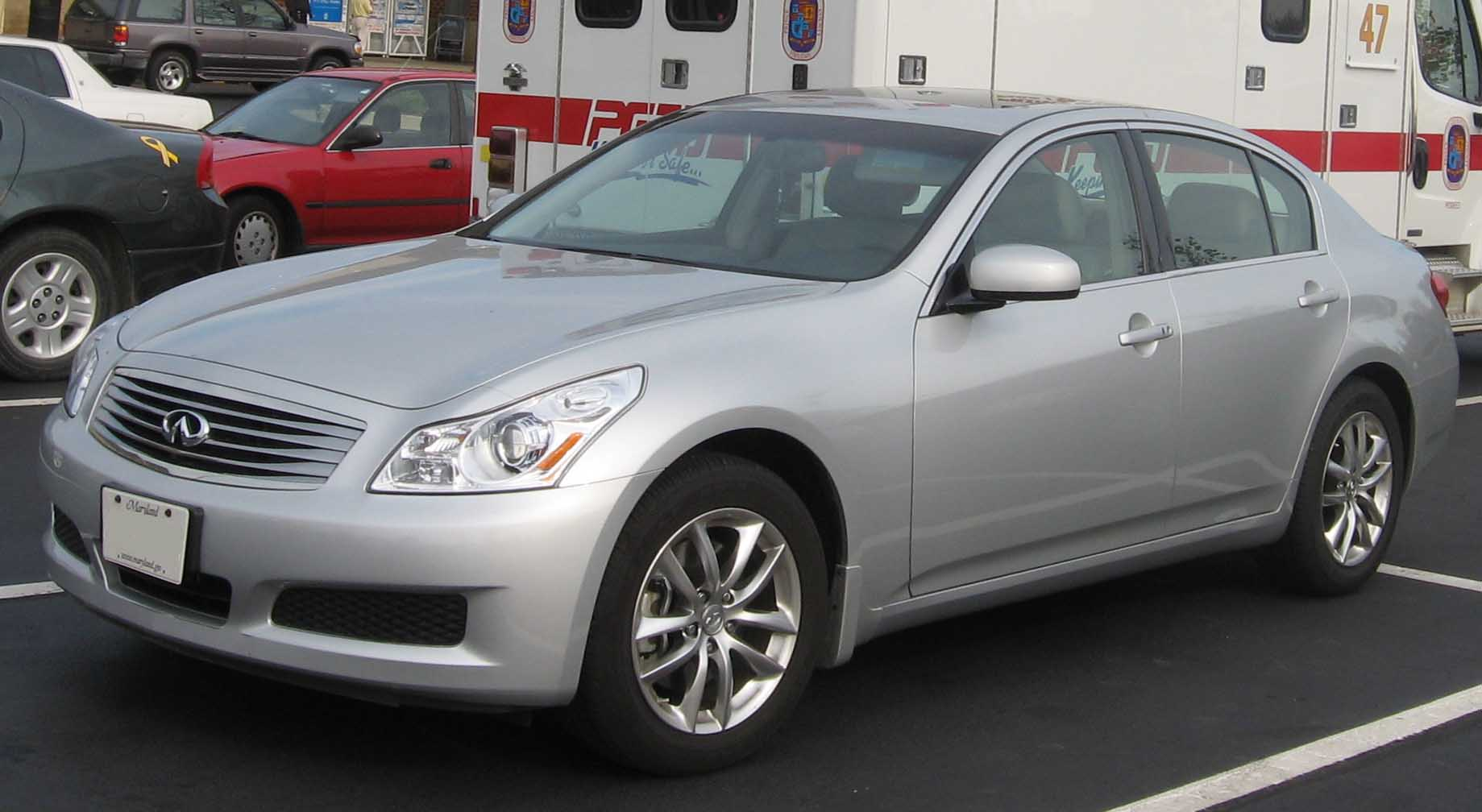 2007-2008 Infiniti G35 photographed in Accokeek, Maryland, USA.